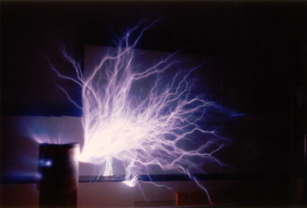 Brush discharge at the high voltage electrod of a Tesla coil.